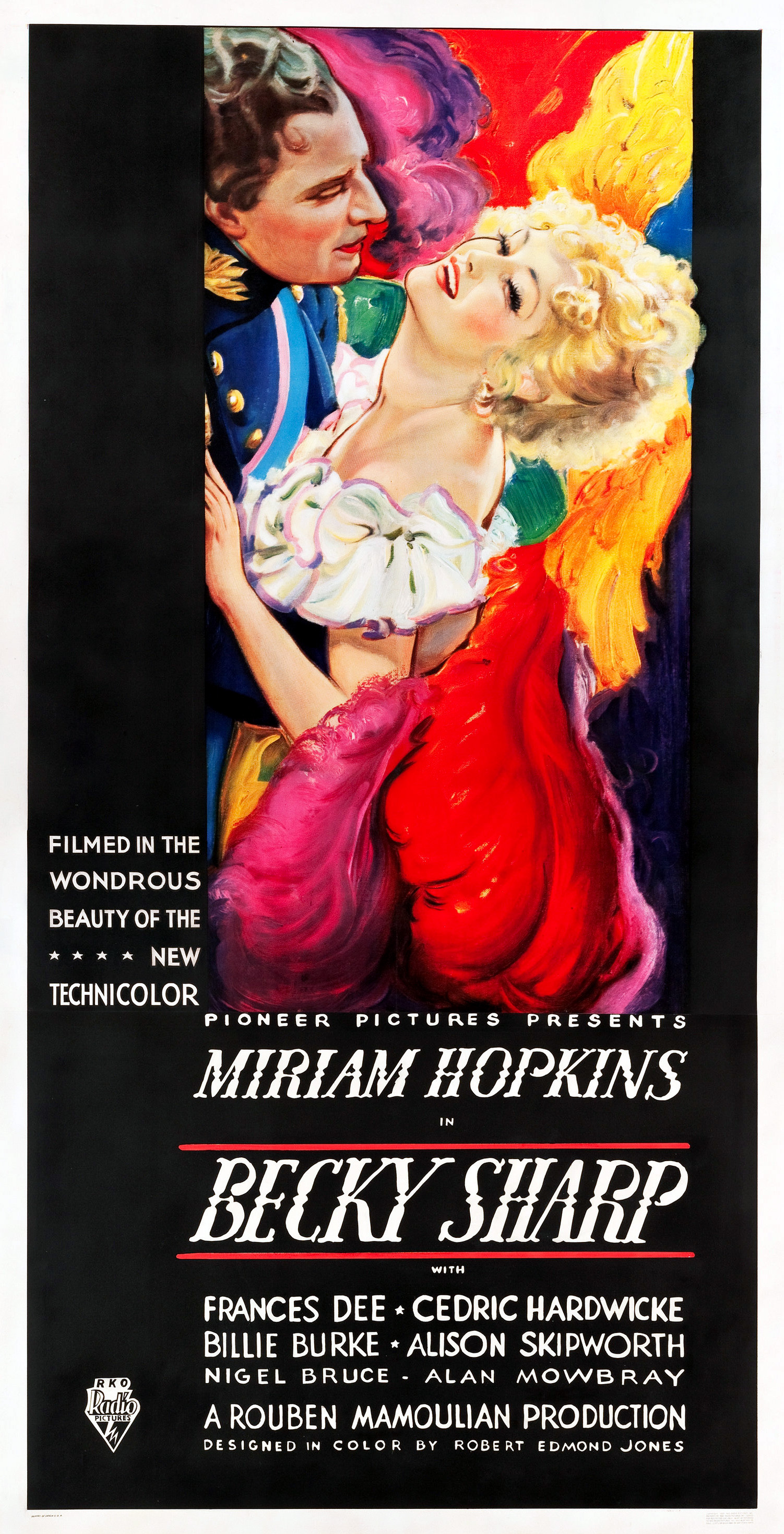 Three-sheet theatrical release poster for the 1935 film The Informer.